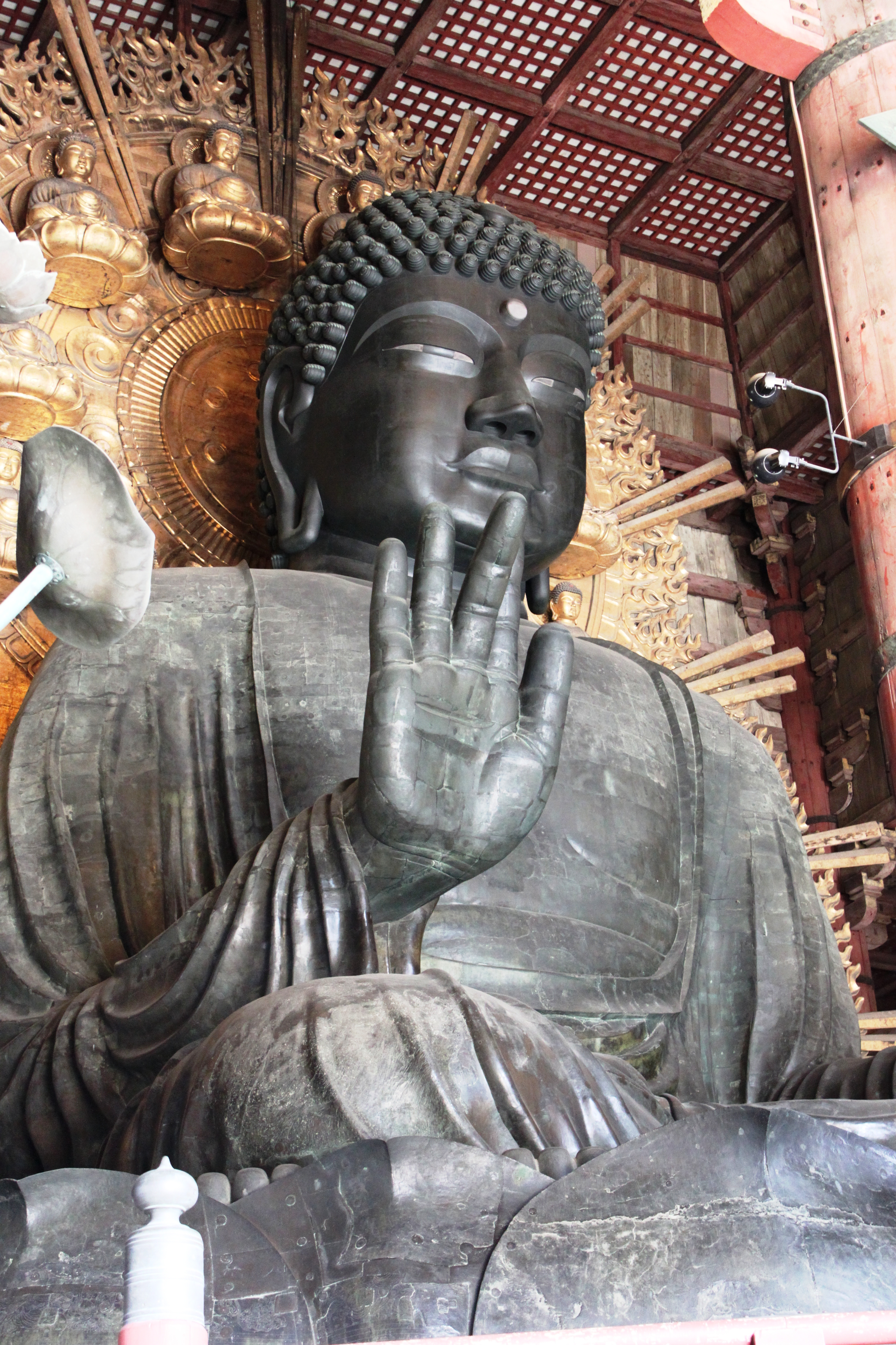 The Vairocana of Todaiji Temple, Nara, Japan.